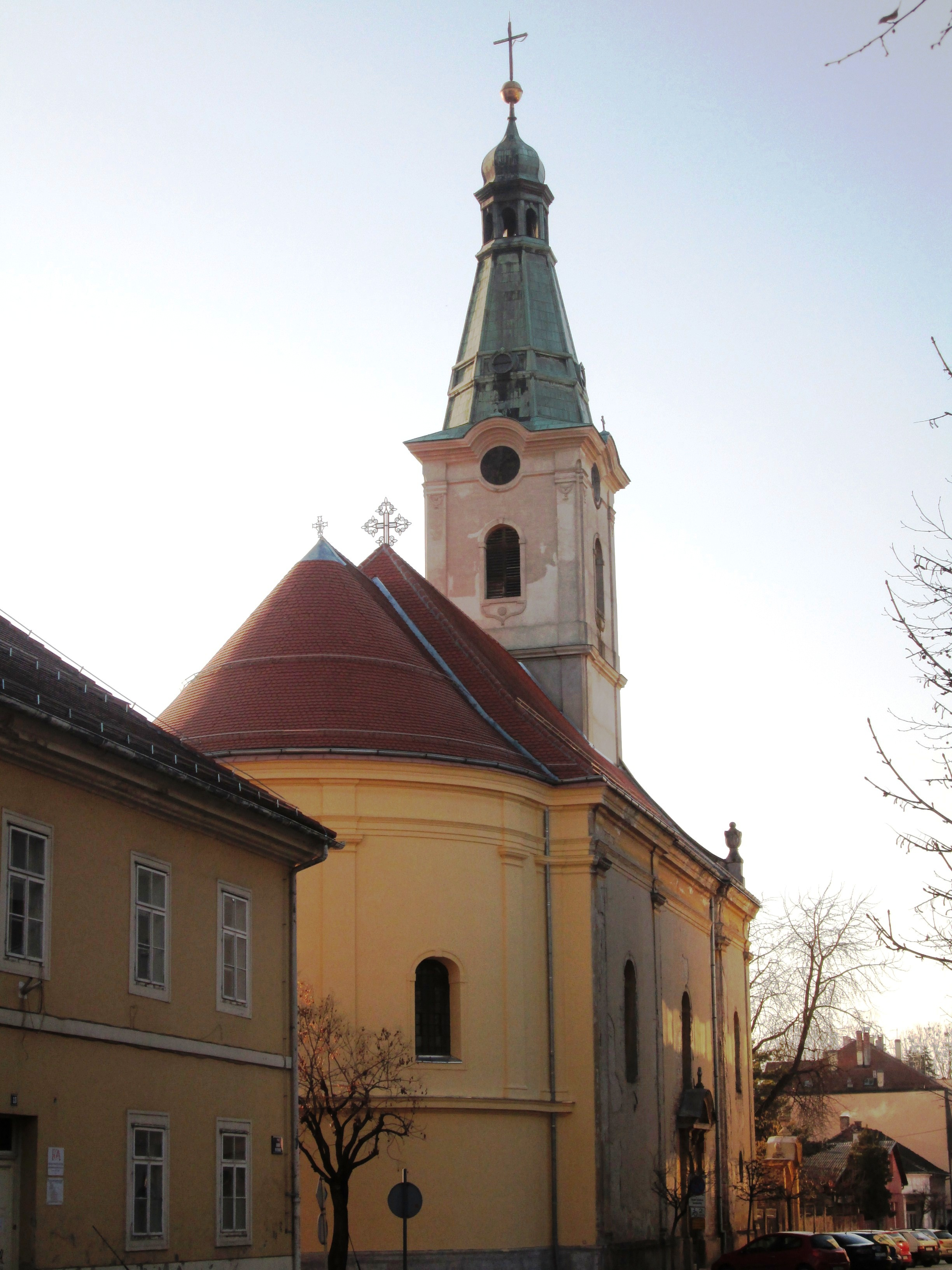 Serbian Ortodox Church in Bjelovar, Croatia